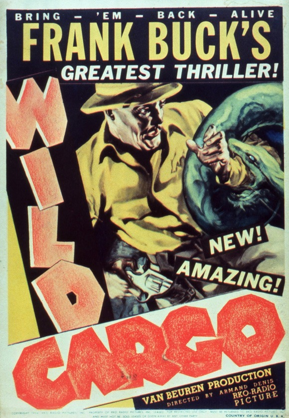 use rationale in Wild Cargo (1934 film) This image is being used to illustrate the article on the movie in question and is used for informational or educational purposes only. This image is of low resolution. It is believed that this image will not devalue the ability of anyone to profit from the original work. No alternate image exists that can be used to illustrate the subject matter. Source: personal collection Use Armand Denis